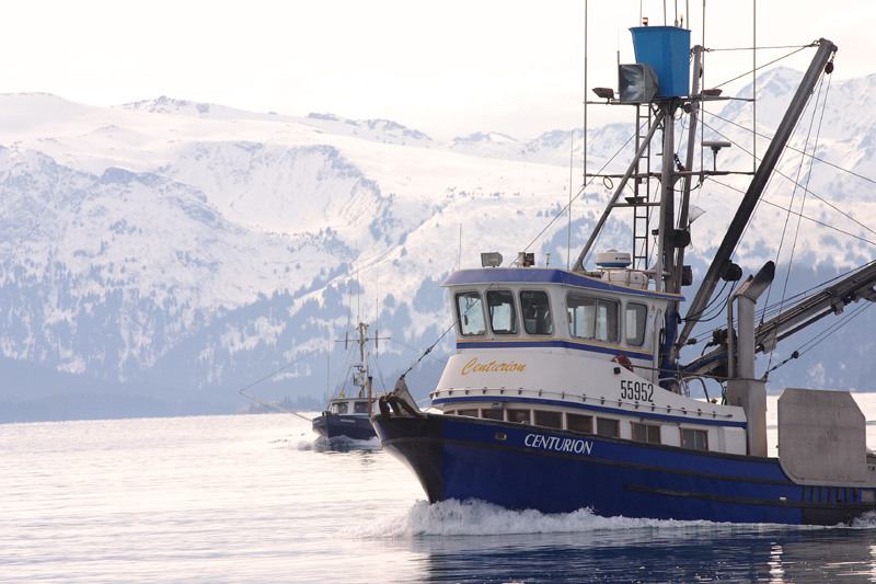 Erin McKittrick, Ground Truth Trekking, own work